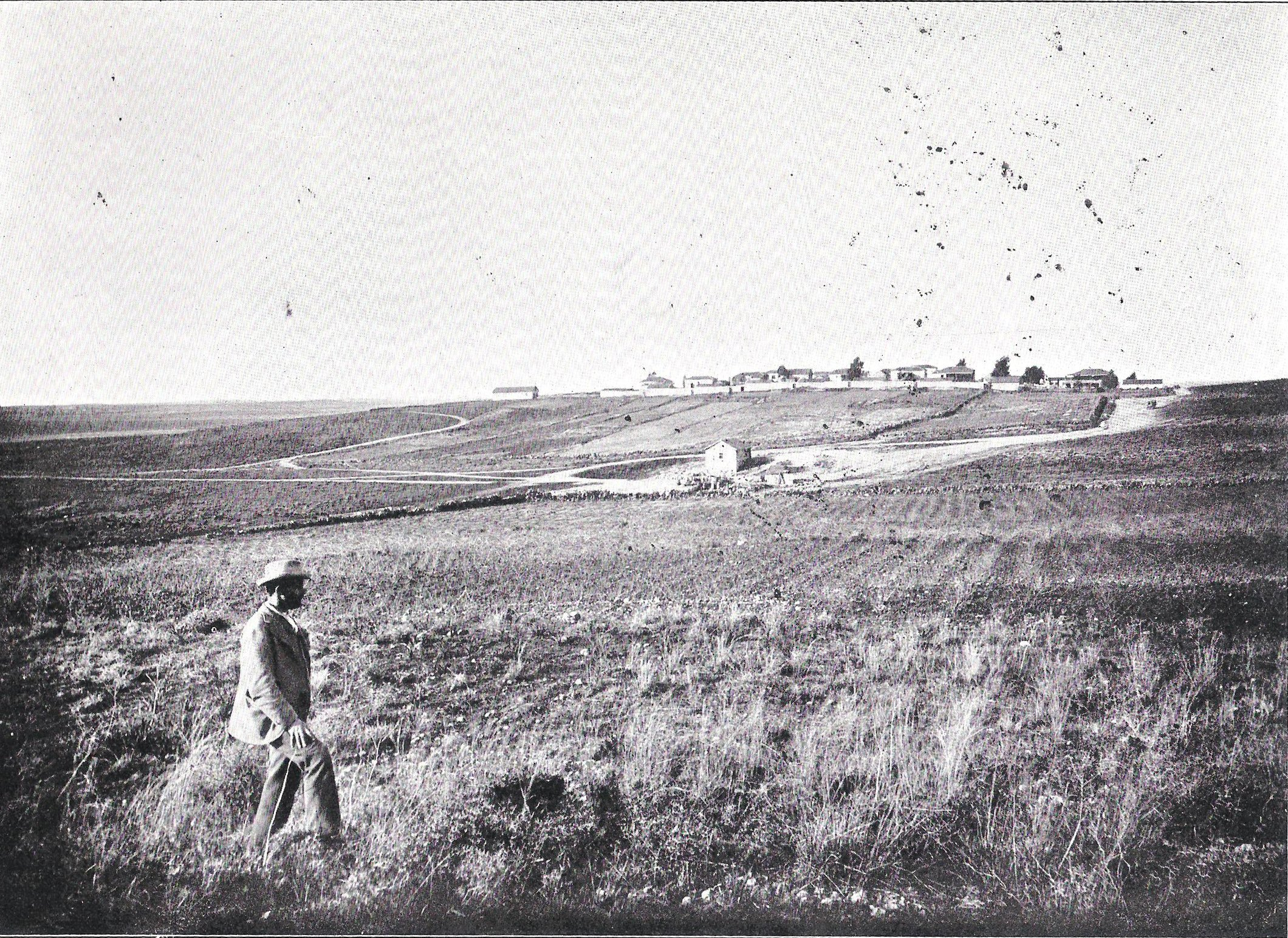 The picture are from old book (that was published in 1899), some of the picture are fro 1899, some are even older: This work or image is now in the public domain because its term of copyright has expired in Israel (details). According to Israel's copyright statute from 2007 (translation), a work is released to the public domain on 1 January of the 71st year after the author's death (paragraph 38 of the 2007 statute) with the following exceptions: A photograph taken on 24 May 2008 or earlier — the old British Mandate act applies, i.e. on 1 January of the 51st year after the creation of the photograph (paragraph 78(i) of the 2007 statute, and paragraph 21 of the old British Mandate act). If the copyrights are owned by the State, not acquired from a private person, and there is no special agreement between the State and the author — on 1 January of the 51st year after the creation of the work (paragraphs 36 and 42 in the 2007 statute). See also category: PD Israel & British Mandate. For the scan and the the crop: The name of the book (in hebrew) is: "מראה ארץ ישראל והמושבות" by (in hebrew): "ישעיהו ראפאלוביטש ושותפו משה אליהו זאכס" Gedera